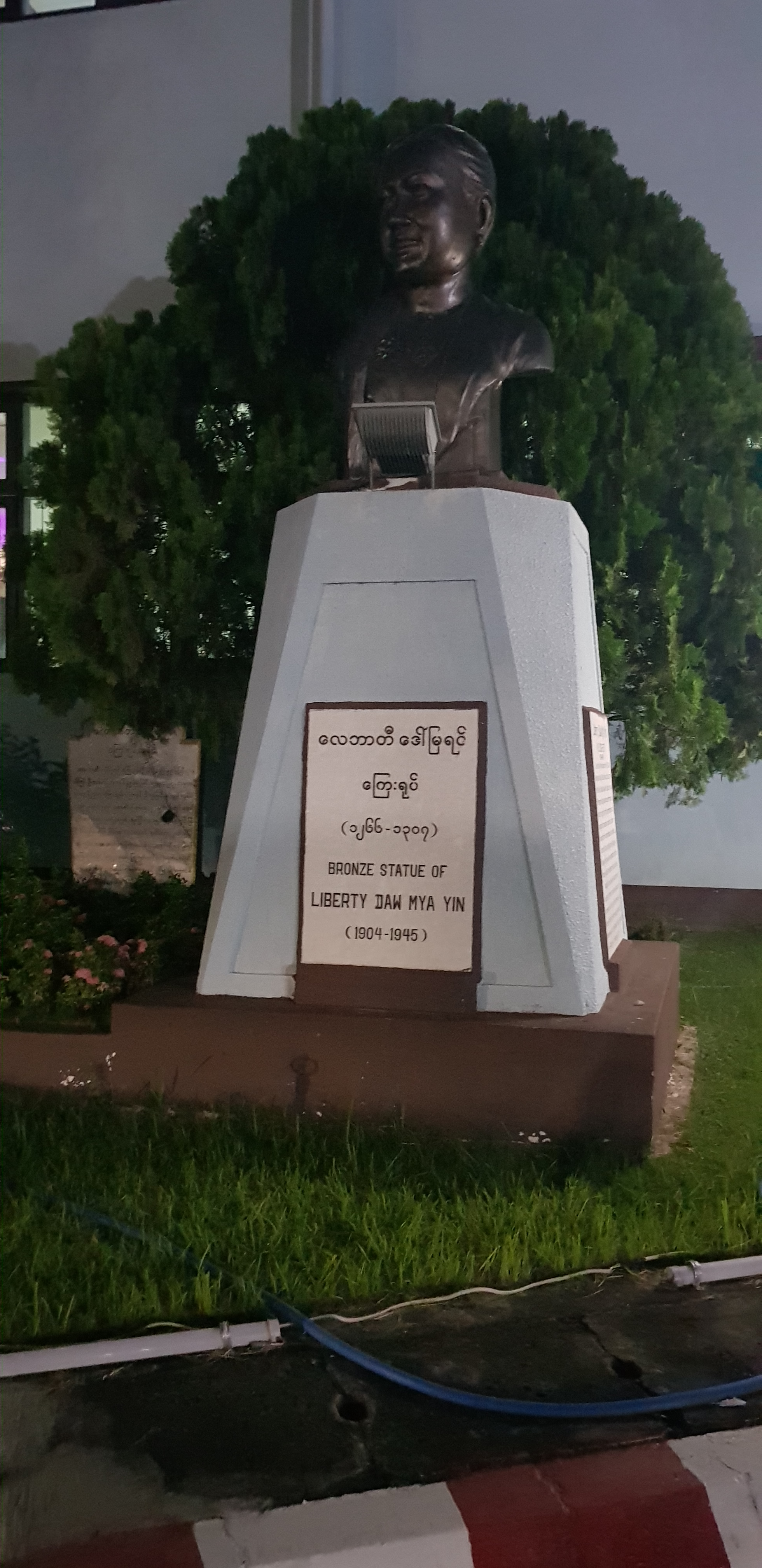 Statute of Ma Mya Yin in Mandalay National Theatre